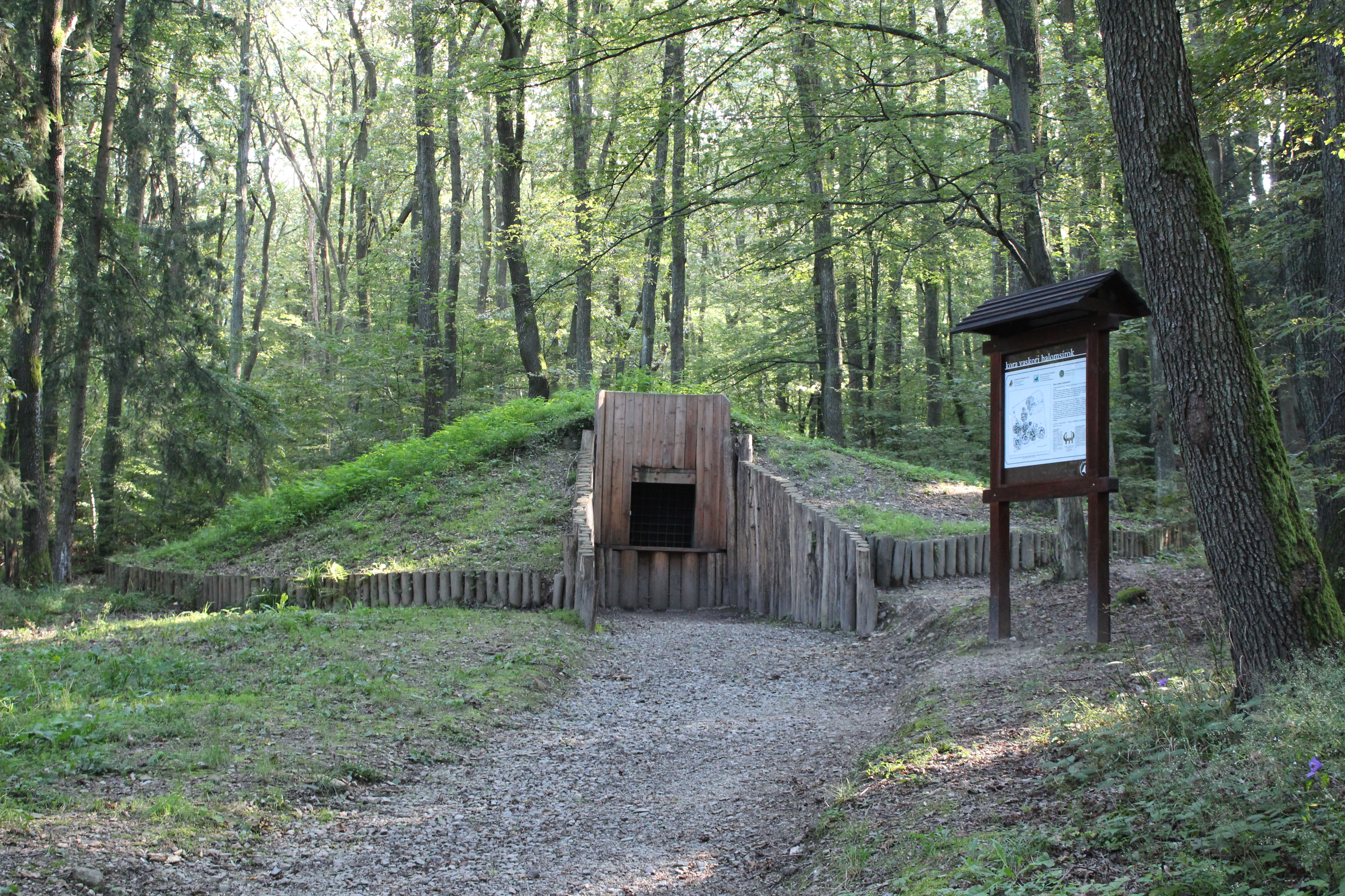 Tumulus on Várhely (Sopron, Hungary)